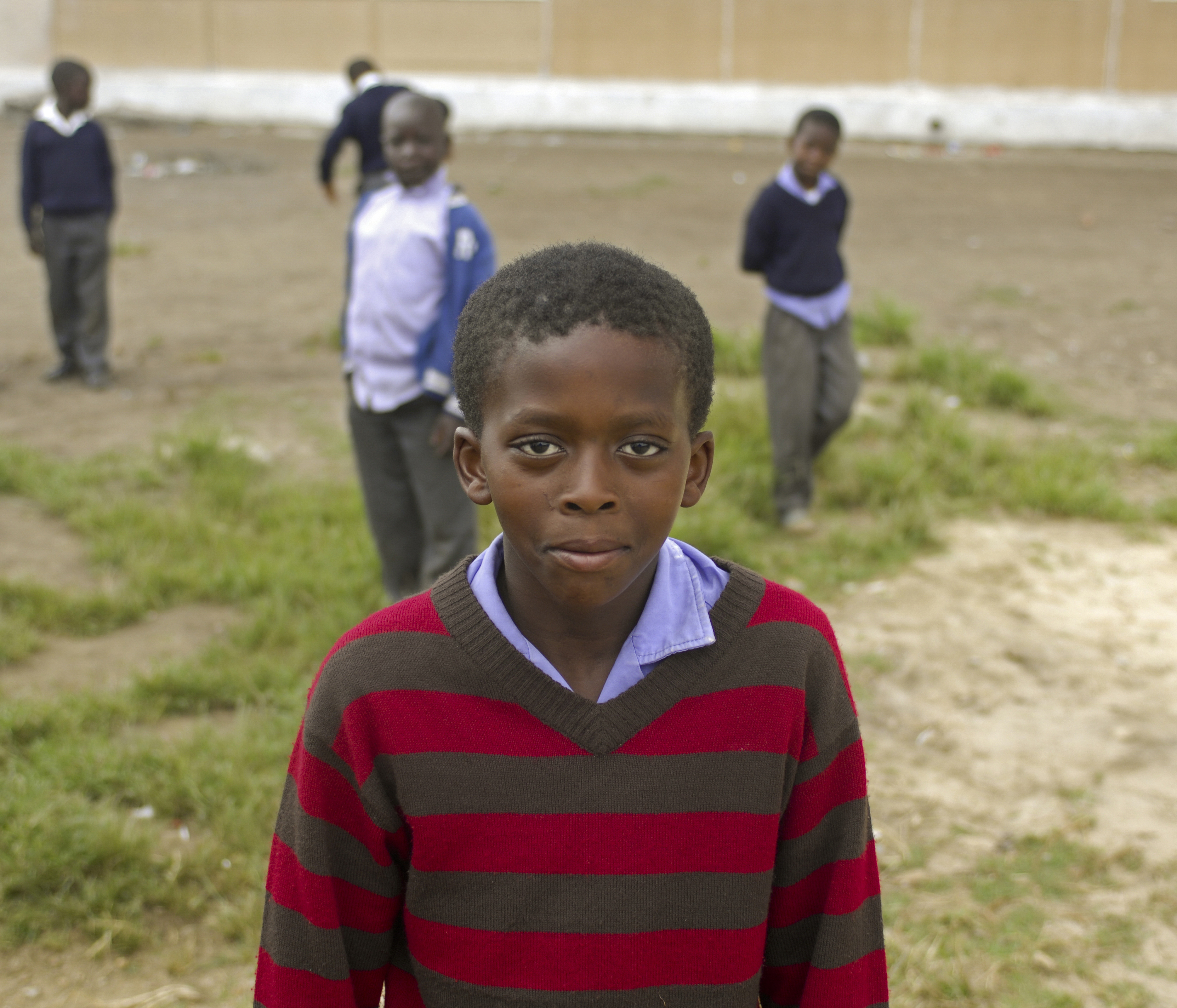 Students at the Lukhanyo Primary School. Located in the Zwelihle Township, within the city limits of Hermanus, in the Western Cape province of South Africa, the school serves the educational needs of the residents of the Zwelihe Township.[1][2] Photography of students was approved by the school Principal and supervised by one of the school’s Deputy Principals.